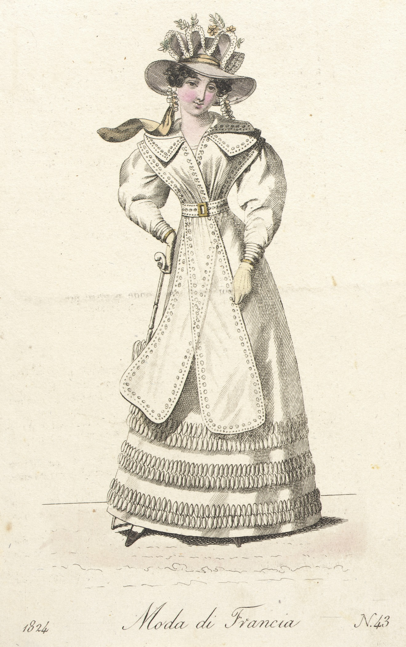 Probably Italy, 1824 Prints; engravings Hand-colored engraving on paper Gift of Dr. and Mrs. Gerald Labiner (M.86.266.373) Costume and Textiles